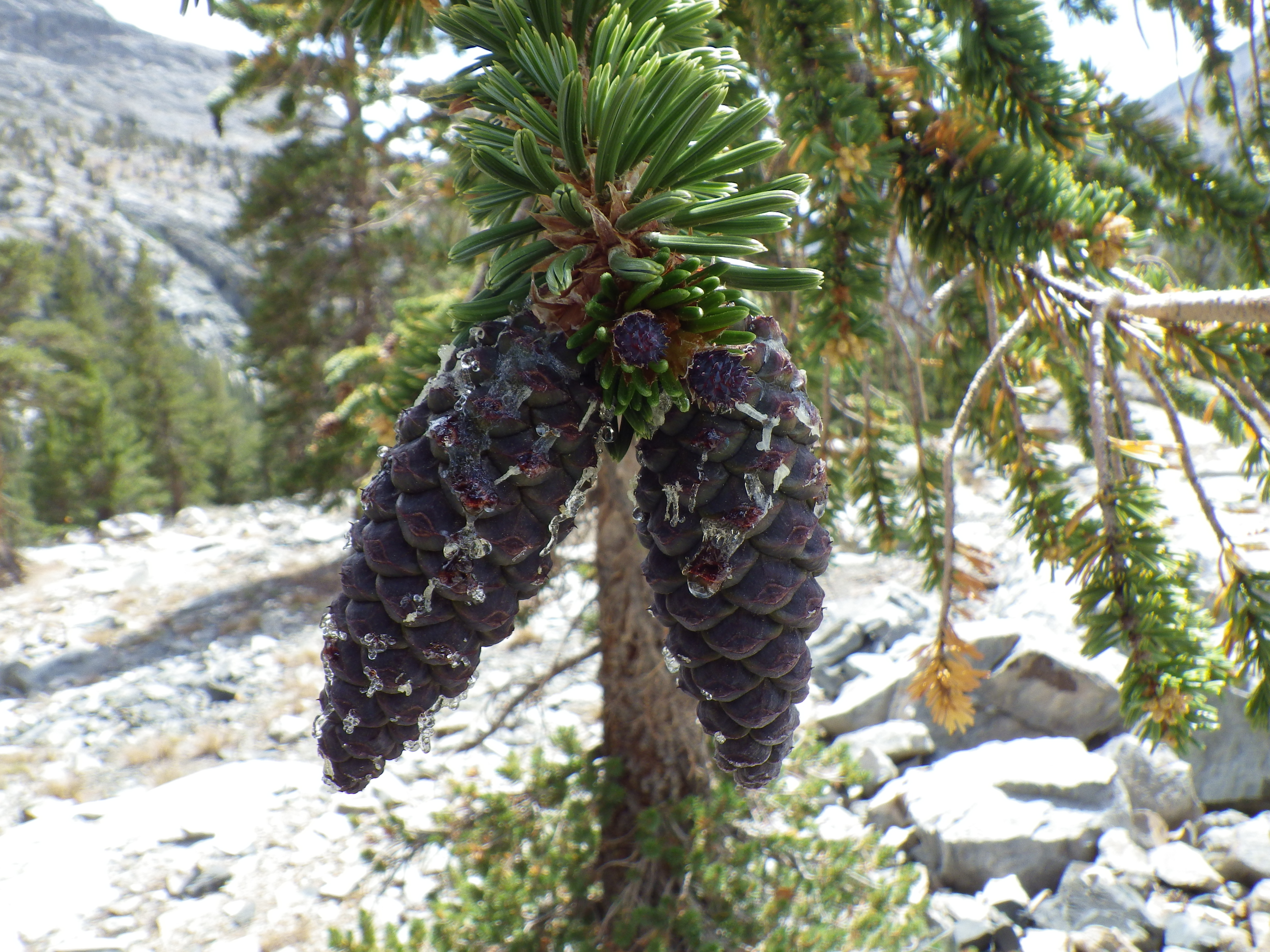 Sierra Foxtail Pine Pinus balfouriana subsp. austrina, Woods Creek, Kings Canyon NP, California. Distinguished from the Bristlecone Pine Pinus longaeva by the broadly attenuate (not rounded) base of the cone, each scale of which has no terminal prickle or weak one to only 1 mm.